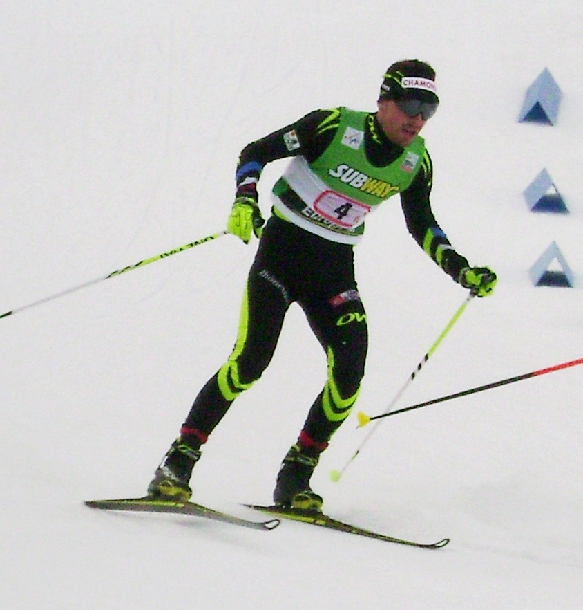 French nordic combined skier François Braud at Lahti Ski Games 2014.